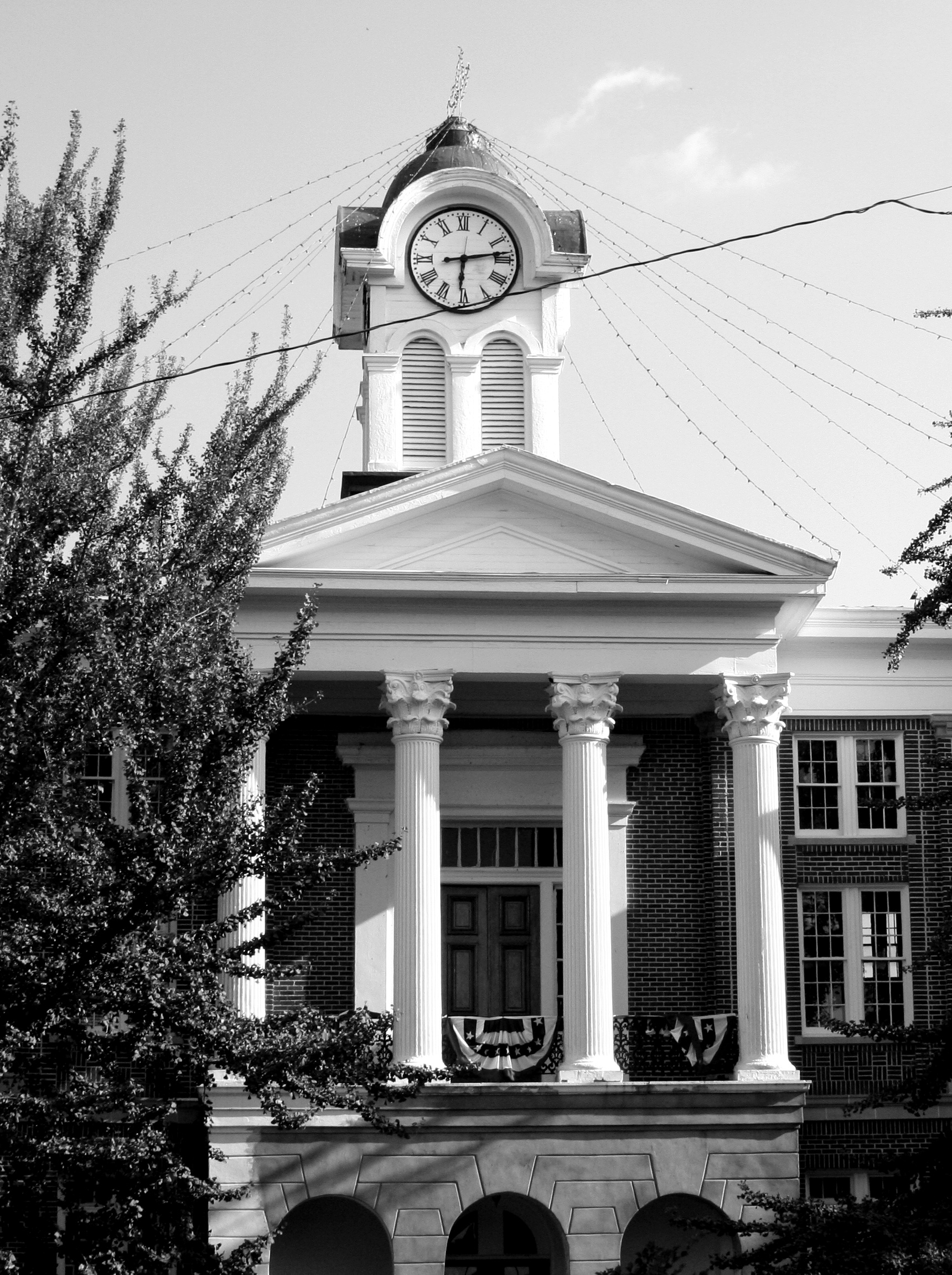 Marshall County Courthouse in Holly Springs, Mississippi, United States